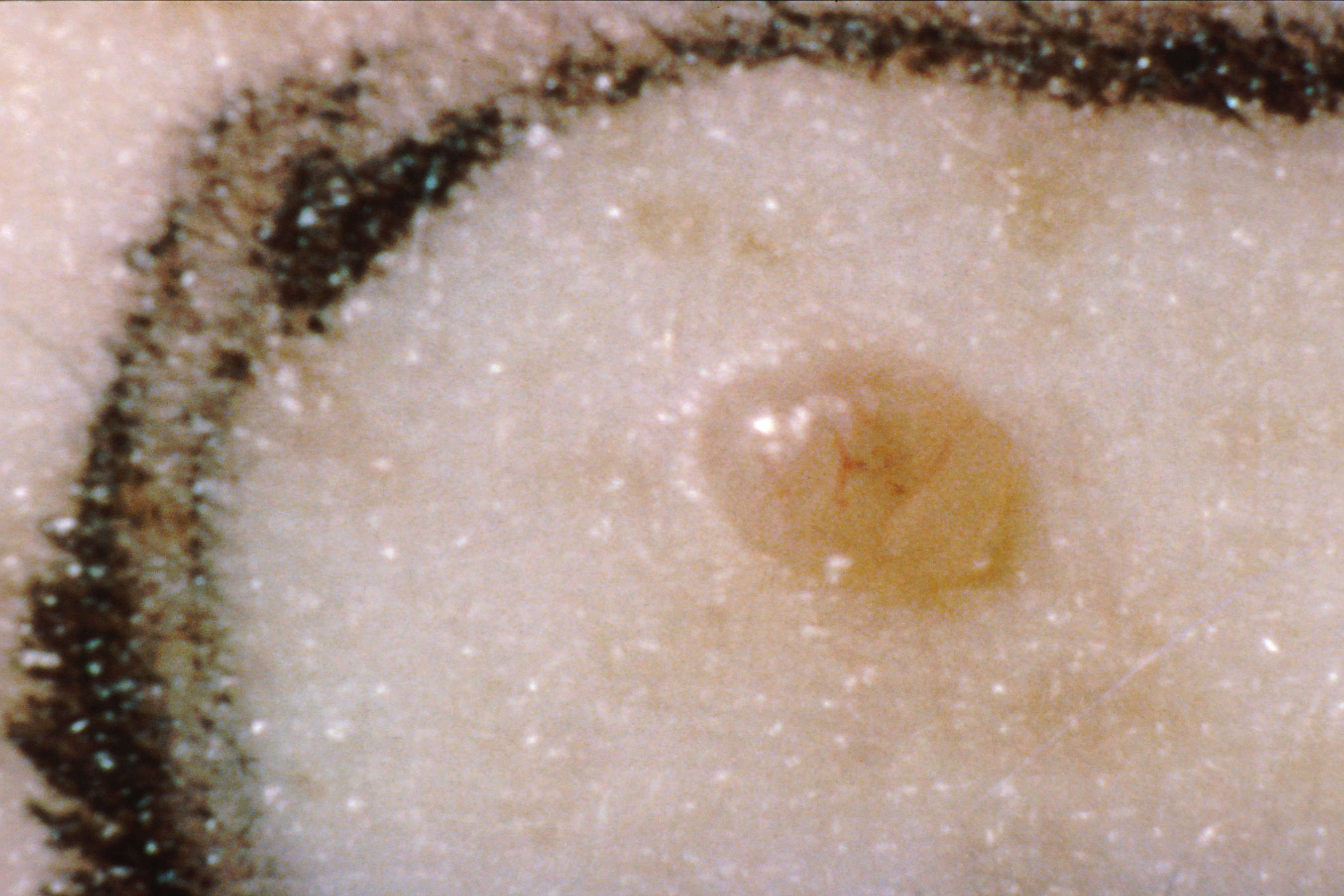 Title Skin Cancer Waxy Lump Description A small, smooth, shiny, pale, waxy lump. This may be skin cancer. Topics/Categories Anatomy -- Skin Cancer Types -- Skin Cancer Cells or Tissue -- Abnormal Cells or Tissue Type Color, Photo Source Dermatology Branch. National Cancer Institute